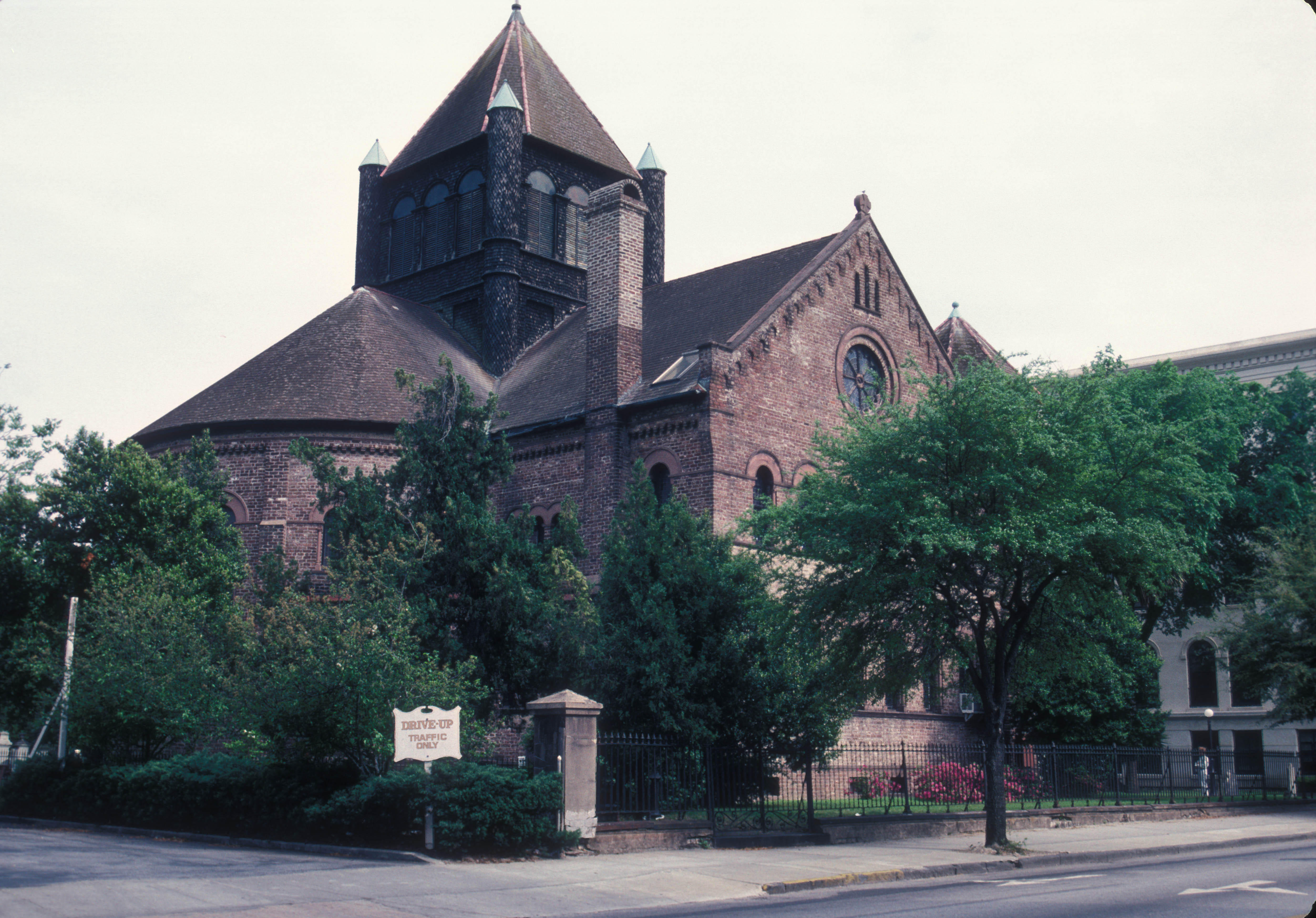 ORGANIZED IN 1681 AND CALLED WHITE MEETING HOUSE FROM WHICH MEETING STREET DERIVED ITS NAME. CIRCULAR CHURCH BUILT IN 1806, BURNED IN 1861, AND REBUILT IN 1891 IN RICHARDSON ROMANESQUE STYLE